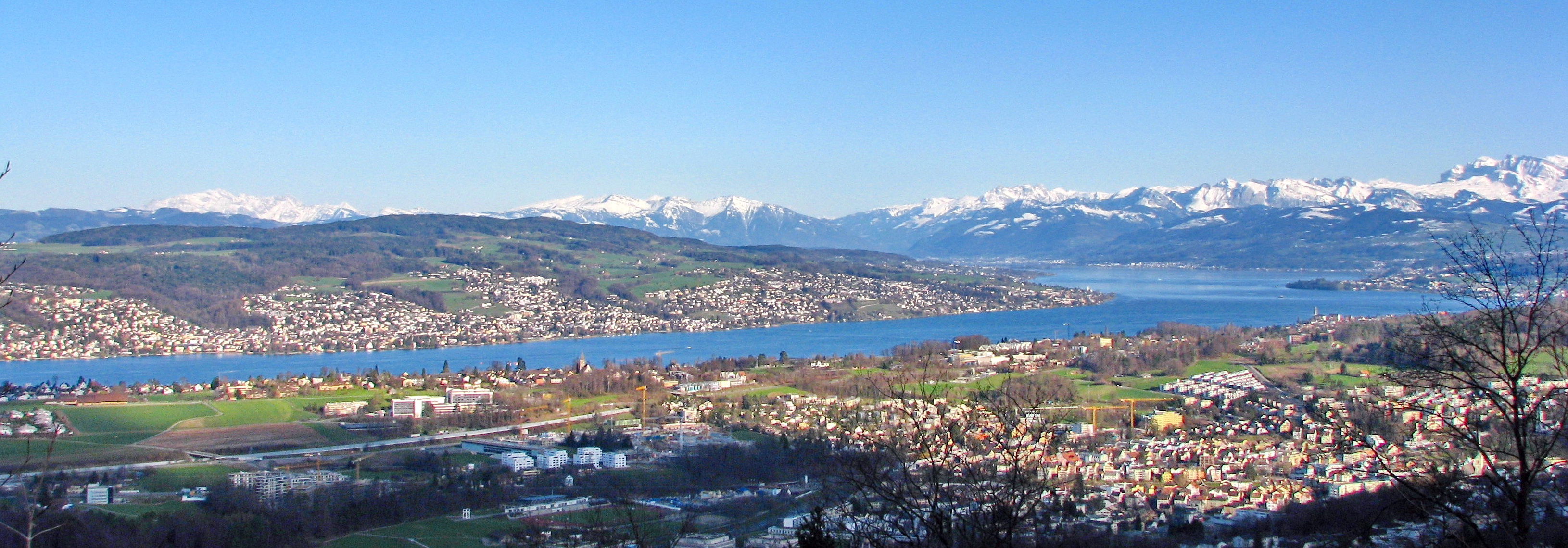 Sihl valley, Zimmerberg, Zürichsee, Forch (to the left) and Pfannenstile, as seen from Felsenegg.